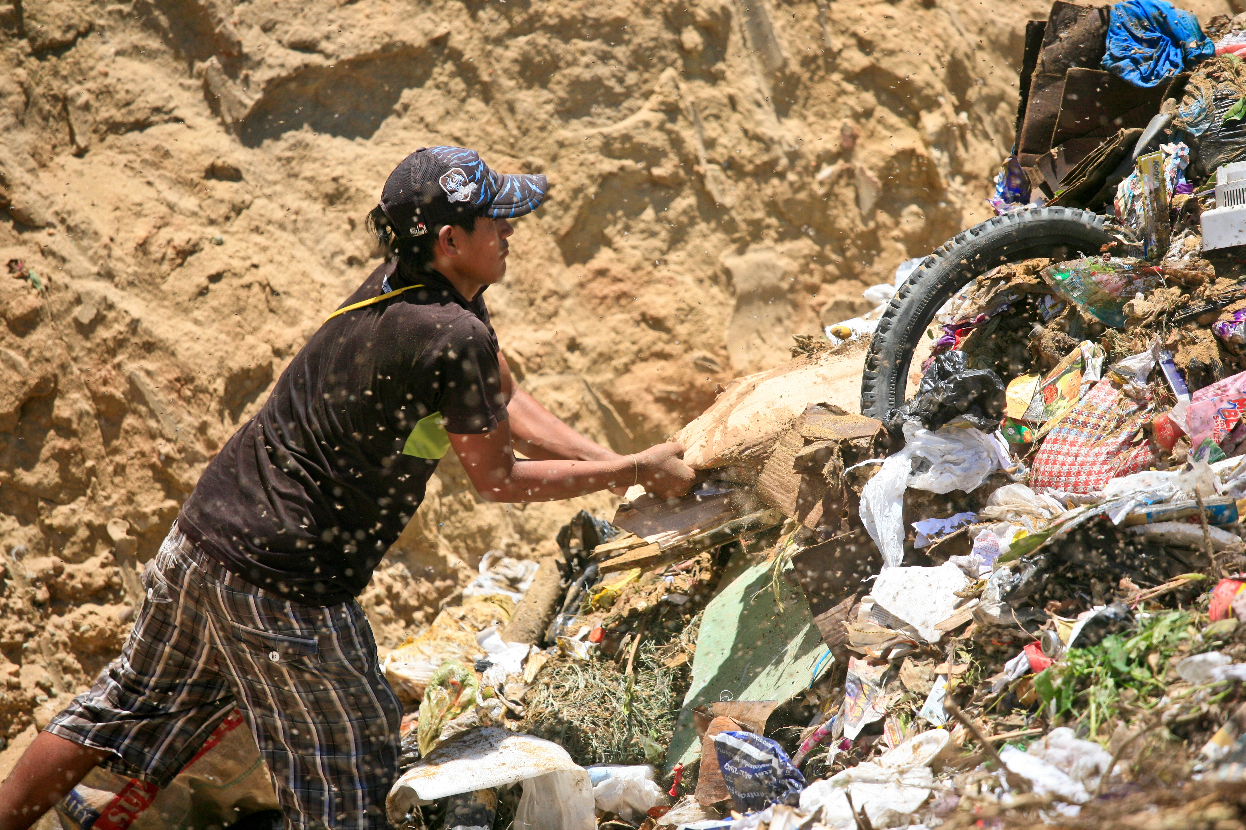 Picking Cardboard